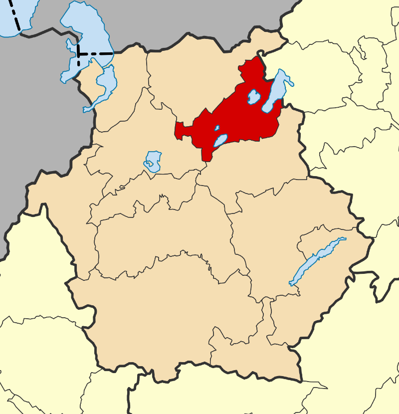 Locator map for Amyndeo municipality in Greek region West Macedonia (2011)